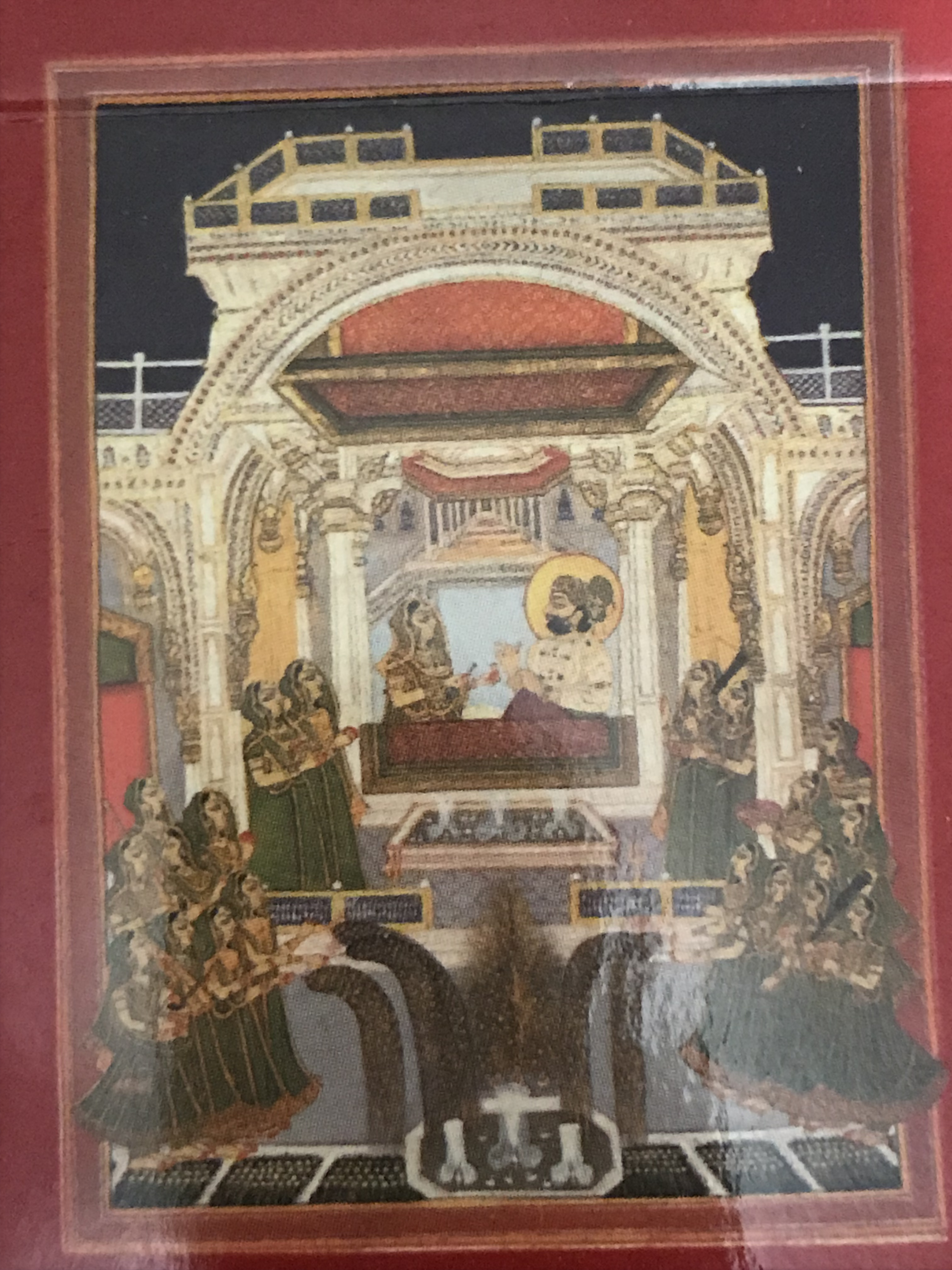 Maharaja takhat Singh of jodhpur celebrating Diwali with ladies